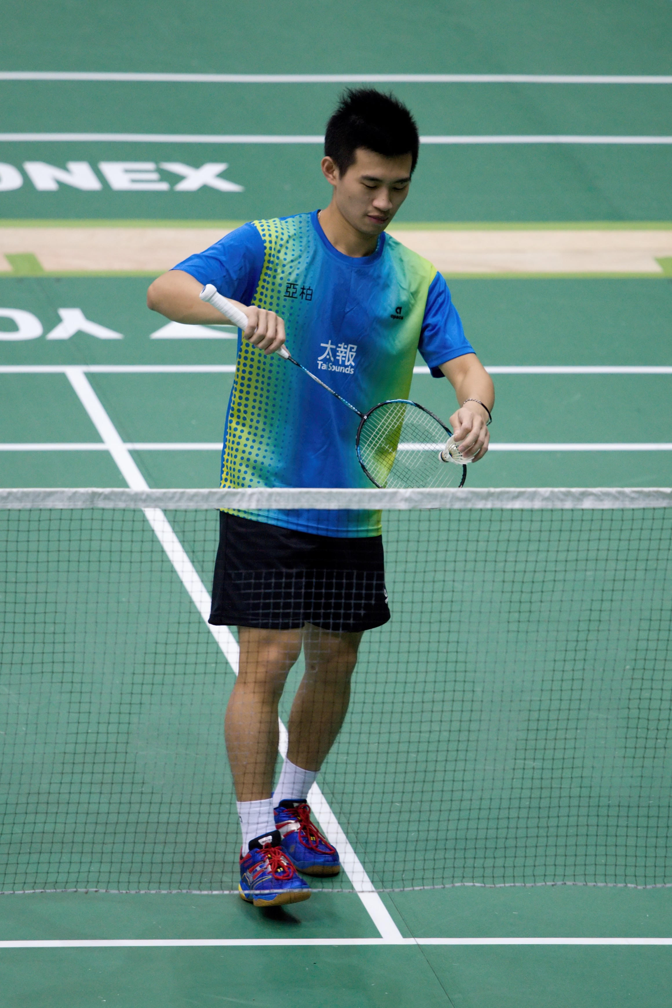 Yonex Chinese Taipei Open 2018 - R2 - Su Ching Heng 01